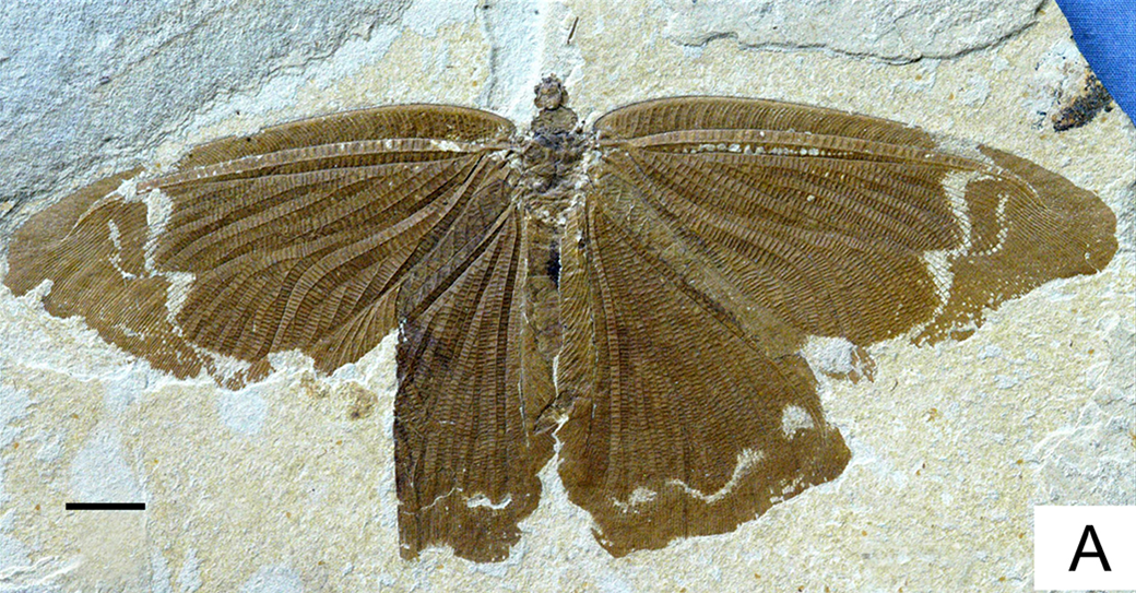 Structural diversity among Kalligrammatidae. A, Sophogramma lii Yang, Zhao and Ren, 2009